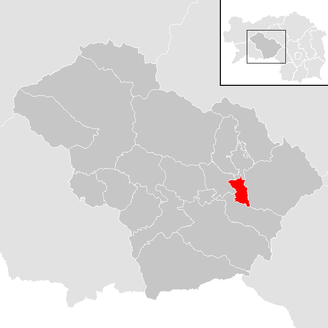 district Murtal in Styria, Austria